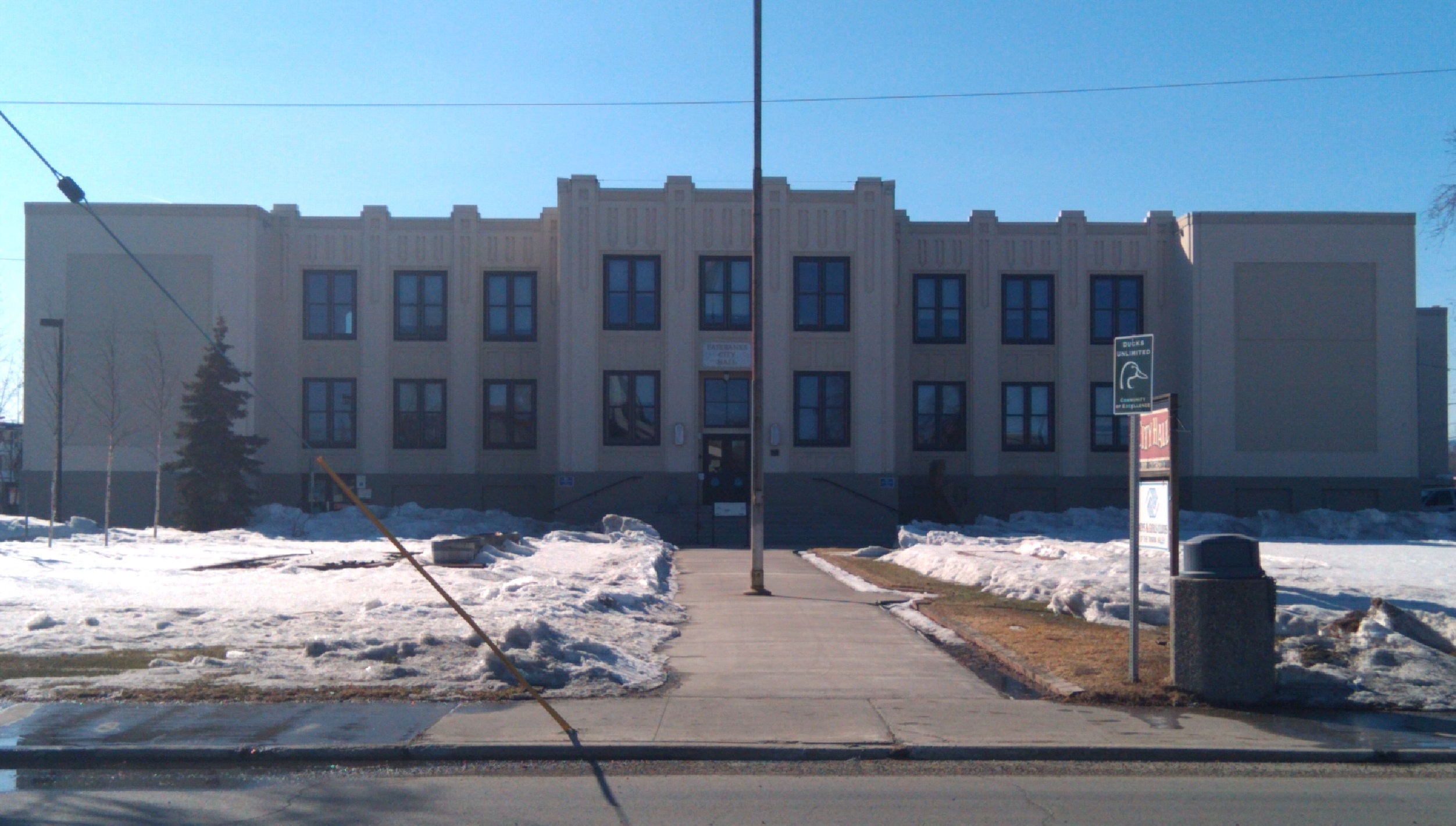 City Hall in Fairbanks, Alaska, located at 800 Cushman Street in its downtown area. Originally constructed in the 1930s as the Fairbanks public schoolhouse, known colloquially for many years as "Old Main."